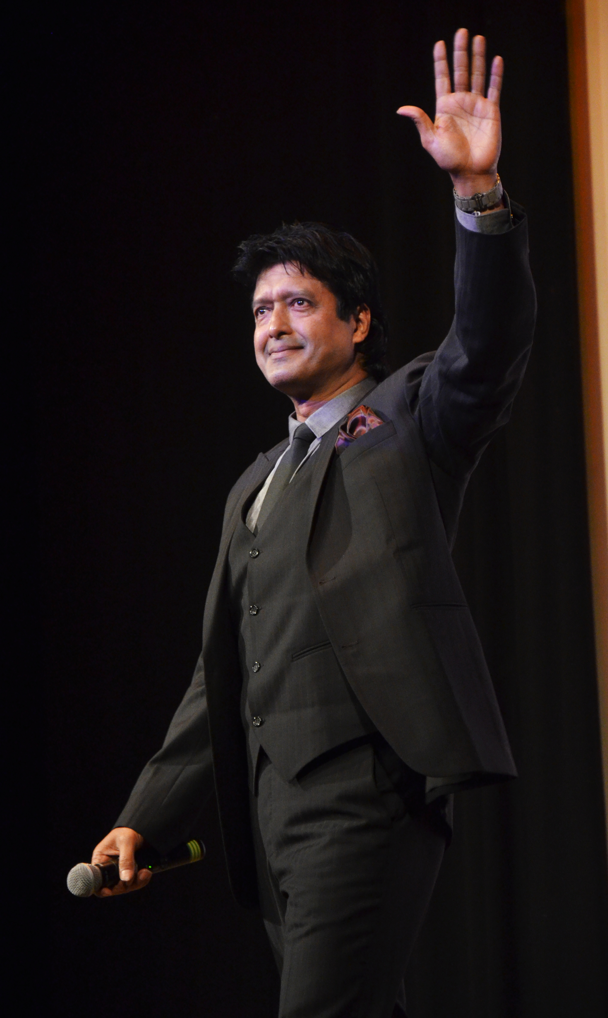 Rajesh Hamal addressing audience during his golden jubilee birthday celebration in an event organised by NepaliTouch Australia along with singer Rajesh Payal Rai and Anju Panta at Hurstville, Sydney.